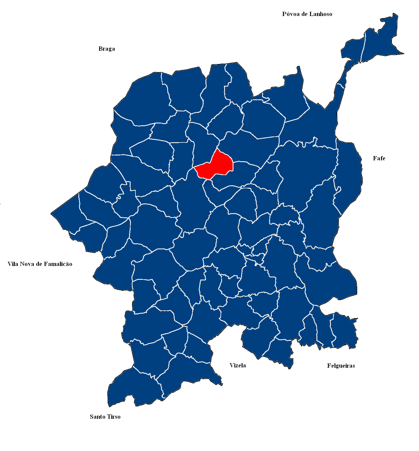 Map of Santa Eufémia de Prazins parish, Guimarães Municipality, Portugal